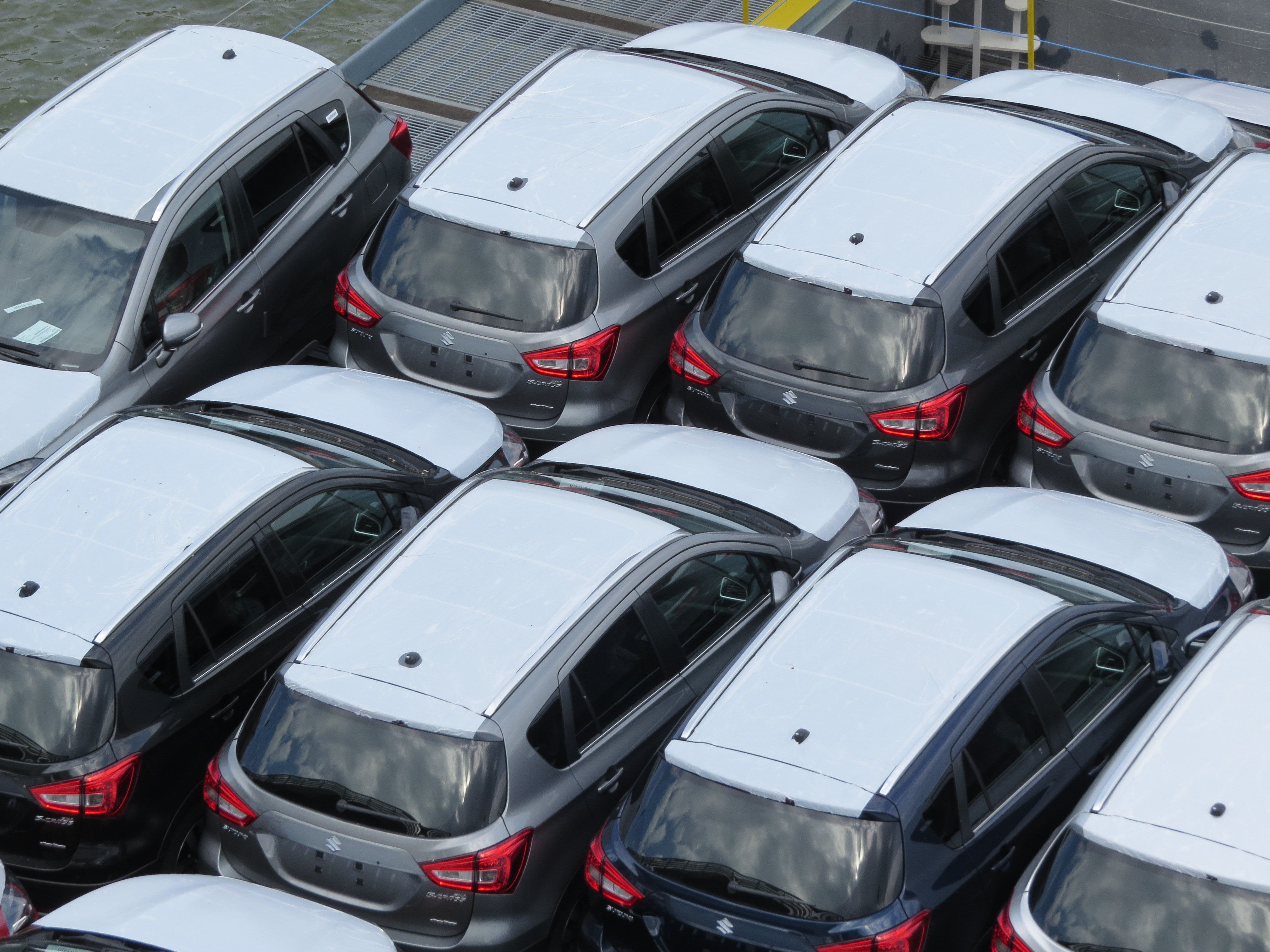 Suzuki SX4 (2nd generation) on the ship Kelheim at Kraftwerk Melk, Austria